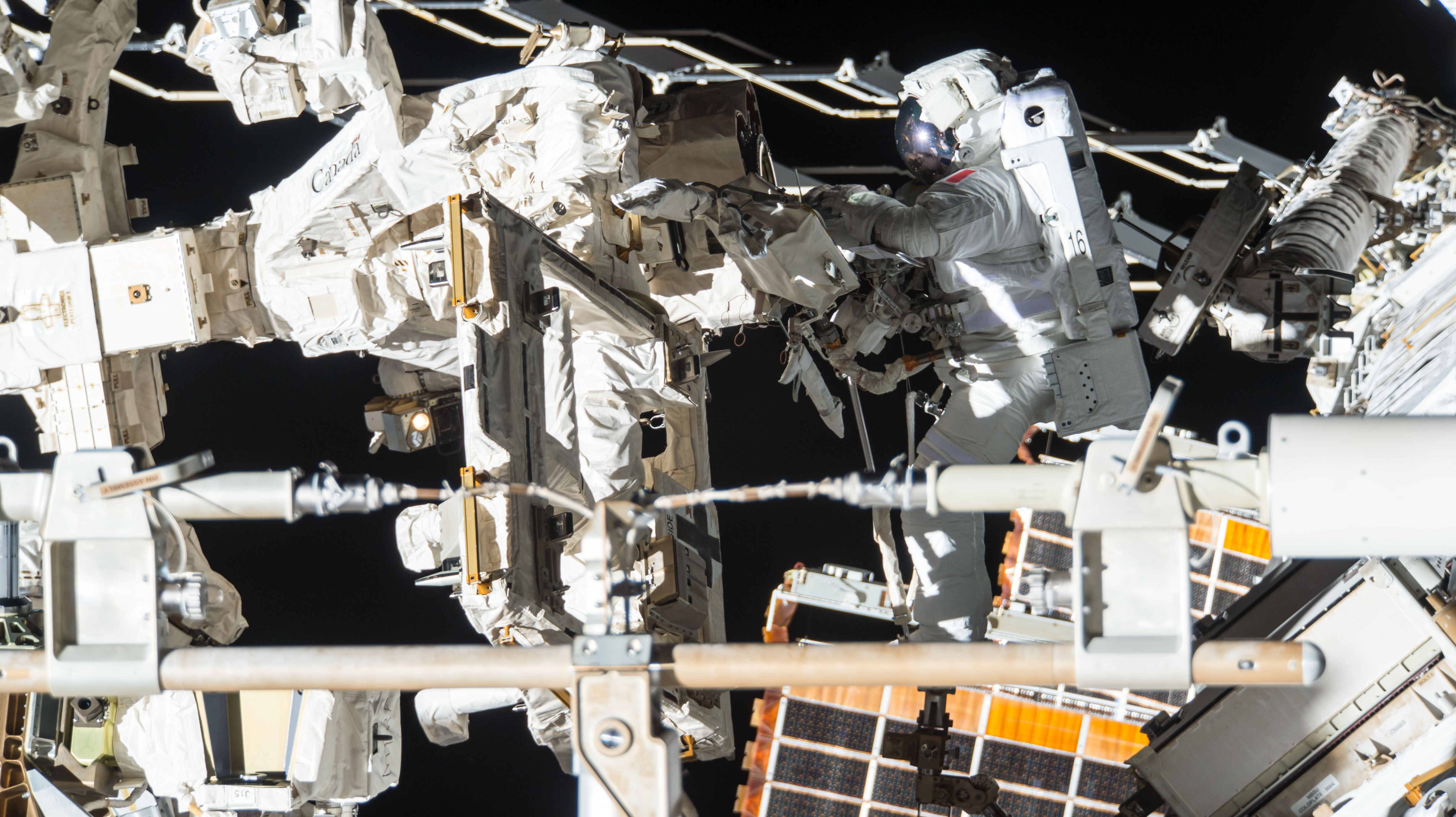 Flight Engineer Thomas Pesquet of ESA (European Space Agency) is seen performing maintenance on the Dextre robot during a spacewalk. Pesquet and Expedition 50 Commander Shane Kimbrough of NASA conducted a six hour and 34 minute spacewalk on March 24, 2017. The two astronauts successfully disconnected cables and electrical connections on the Pressurized Mating Adapter-3 to prepare for its robotic move, lubricated the latching end effector on the Special Purpose Dexterous Manipulator "extension" for the Canadarm2 robotic arm, inspected a radiator valve and replaced cameras on the Japanese segment of the outpost.